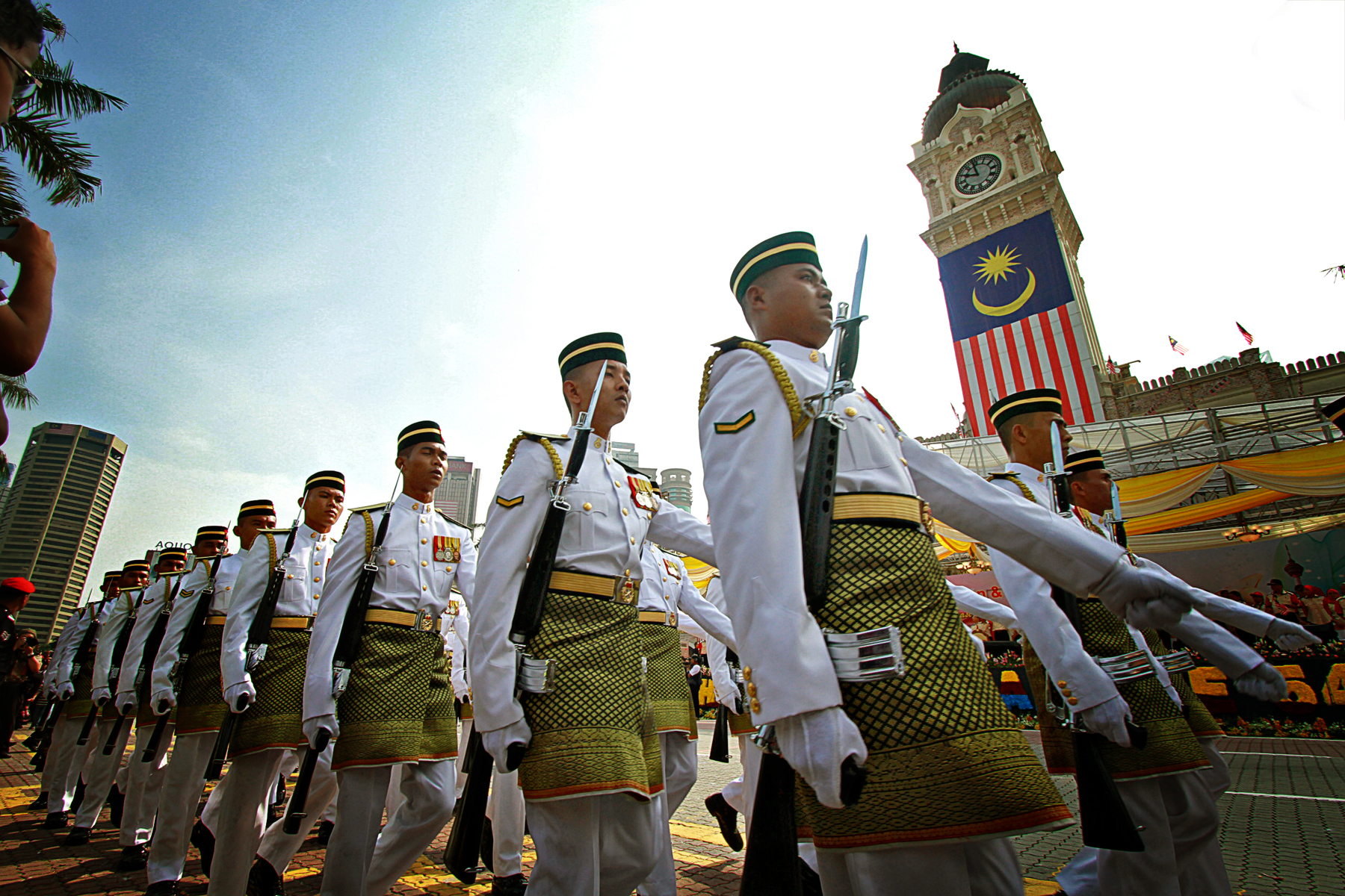 Today 16 September is declared a public holiday for Malaysia to commemorate the establishment of the Malaysian federation and marked the joining together of Malaya, North Borneo (Sabah) and Sarawak to form Malaysia as we call today is 'Hari Malaysia'..